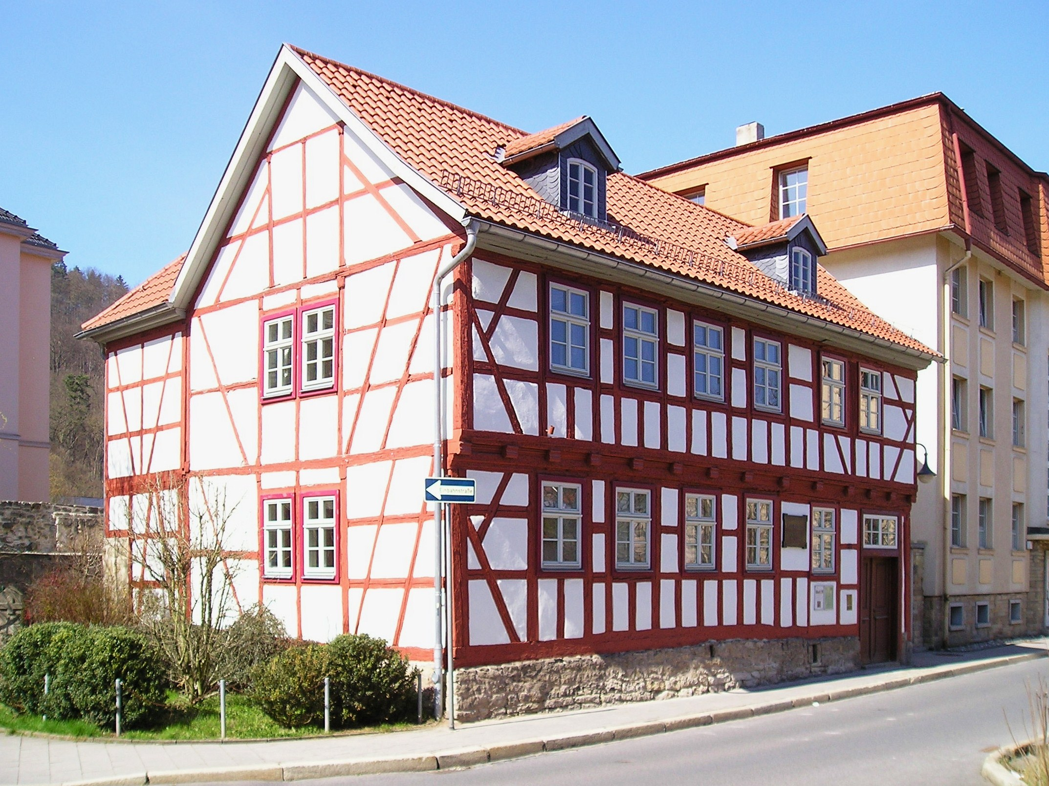 House of the poet Rudolf Baumbach, now home of the Museum of Literature "Baumbachhaus" Meininger museums.